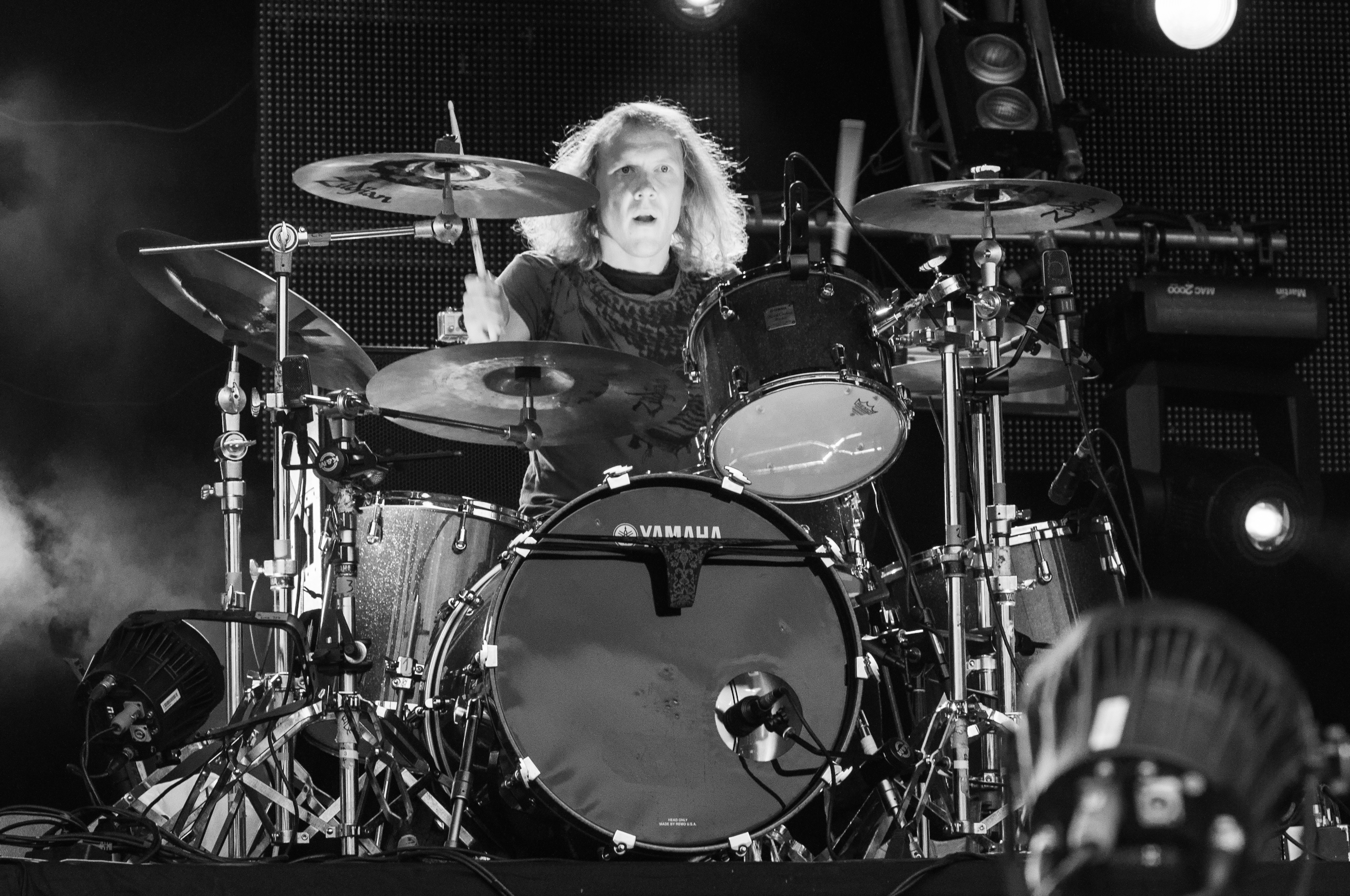 Finnish drummer Sipe Santapukki of Apulanta performing at the 2011 Ilosaarirock festival in Joensuu, Finland.